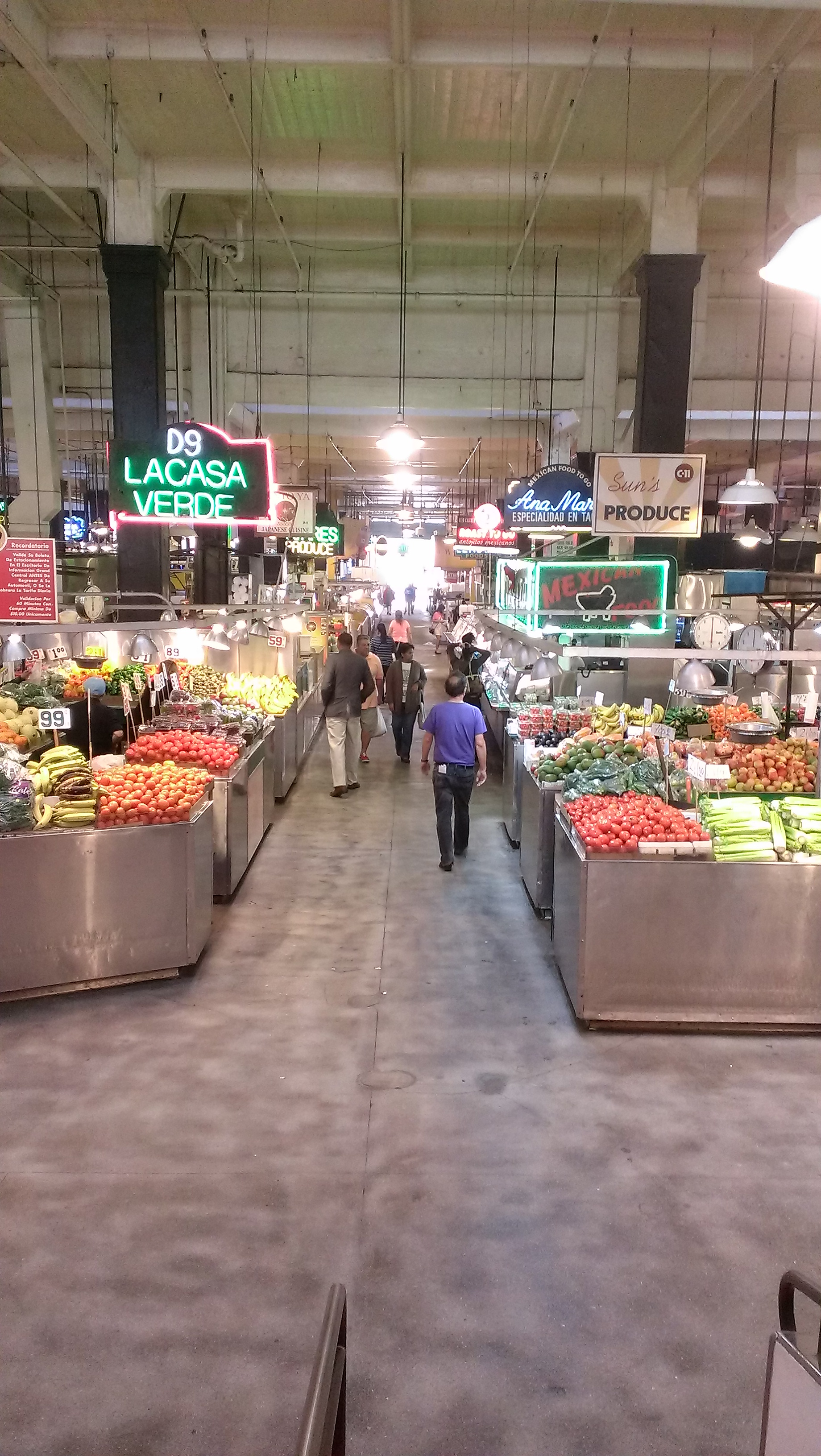 Grand Central Market, in the Homer Laughlin Building, downtown Los Angeles.